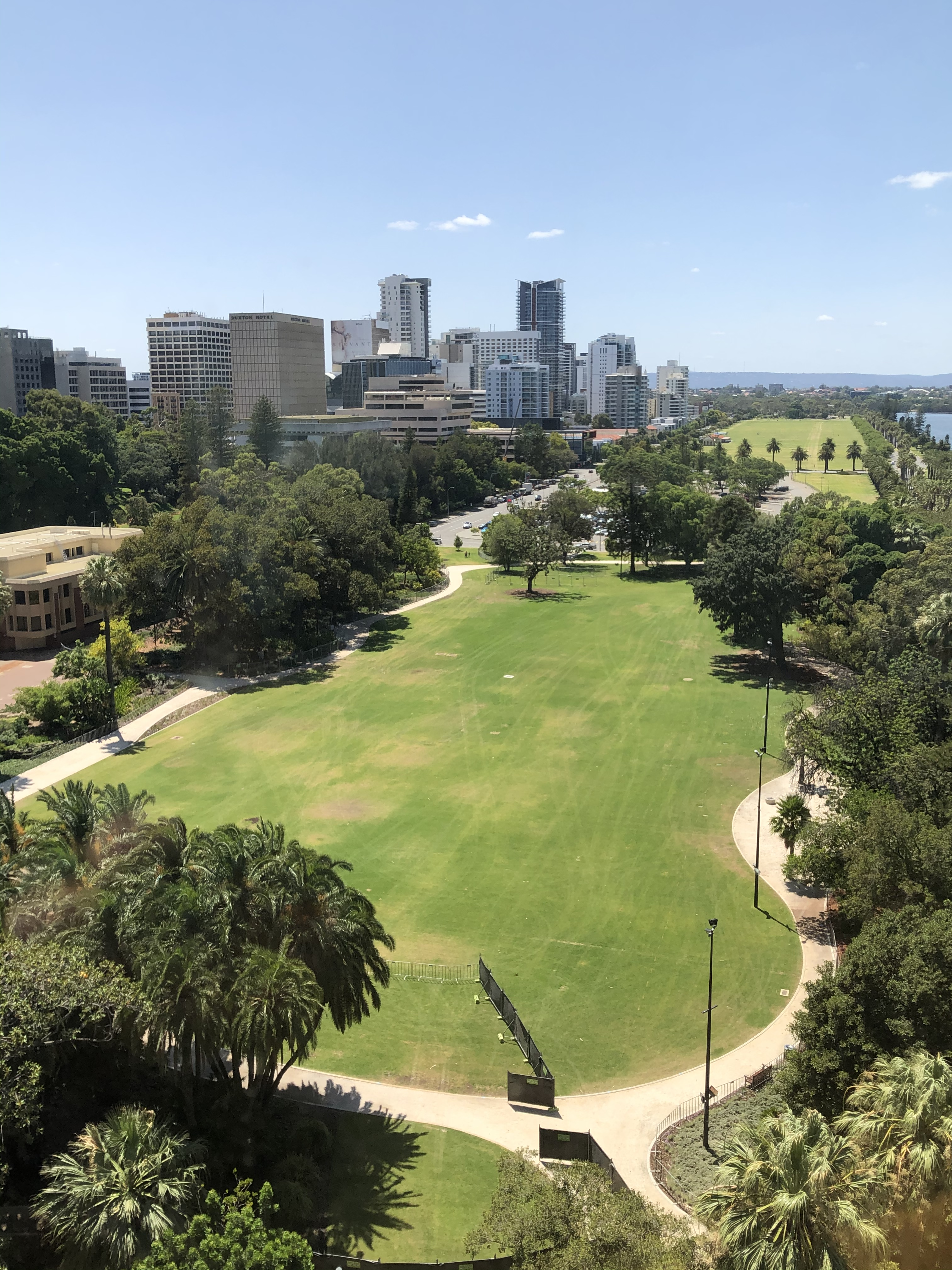 Aerial view of Supreme Court Gardens, Perth @ dat